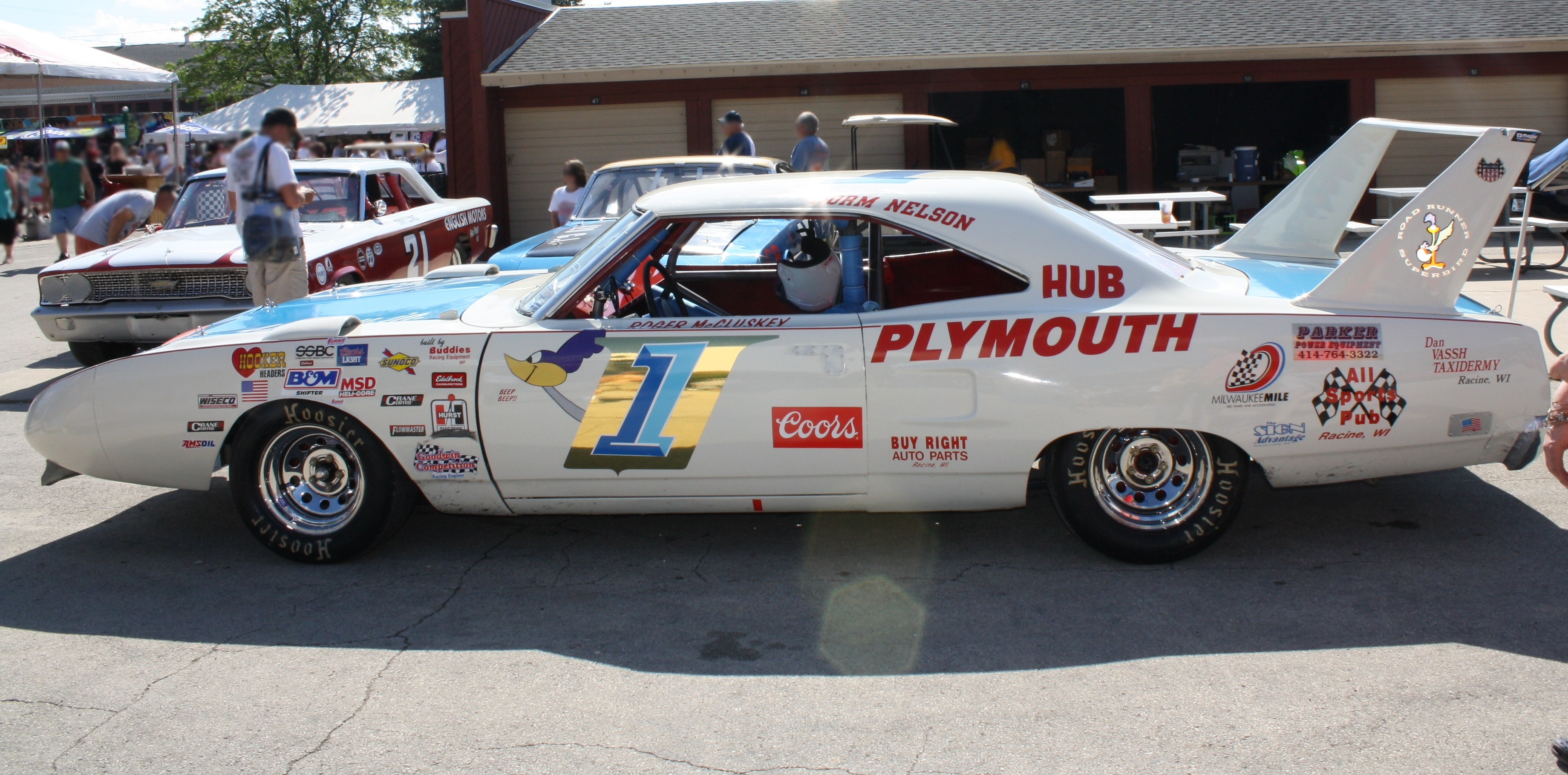 A Plymouth USAC Stock Car or replica on display at the 2009 NASCAR Nationwide race at the Milwaukee Mile. Owned by Norm Nelson and driven by Roger McCluskey